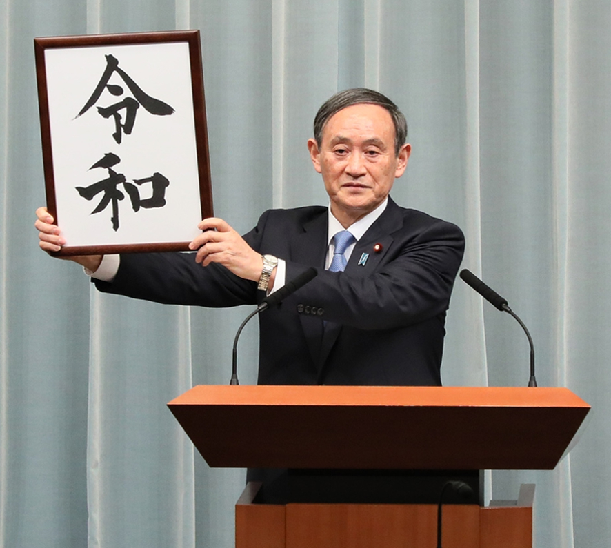 Yoshihide Suga, announcing new imperial era, "Reiwa", to reporters.